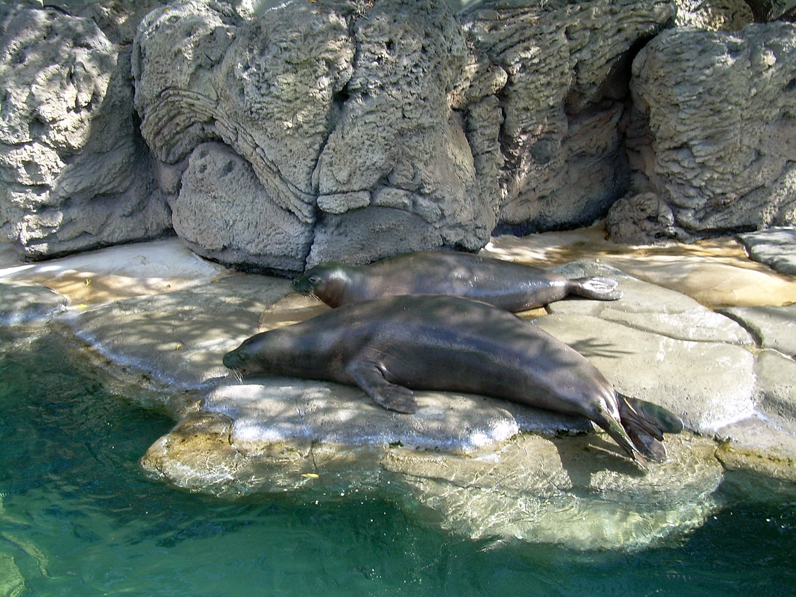 Hawaiian monk seal from the Waikiki Aquarium